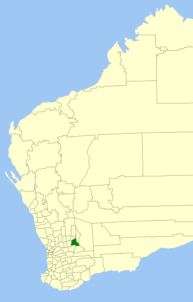 Description=Location of the Local Government Area in Western Australia